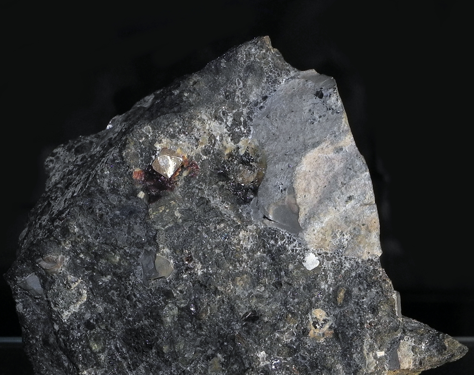 Diamond in kimberlite from RSA, Mineralogical Museum, Wrocław, Poland